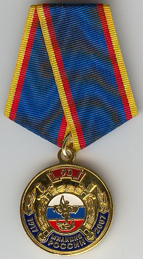 Russian Federation, commemorative medal of the Interior Ministry (MVD) for the 90th anniversary of the creation of the Russian Militia (police force). 1917-2007.